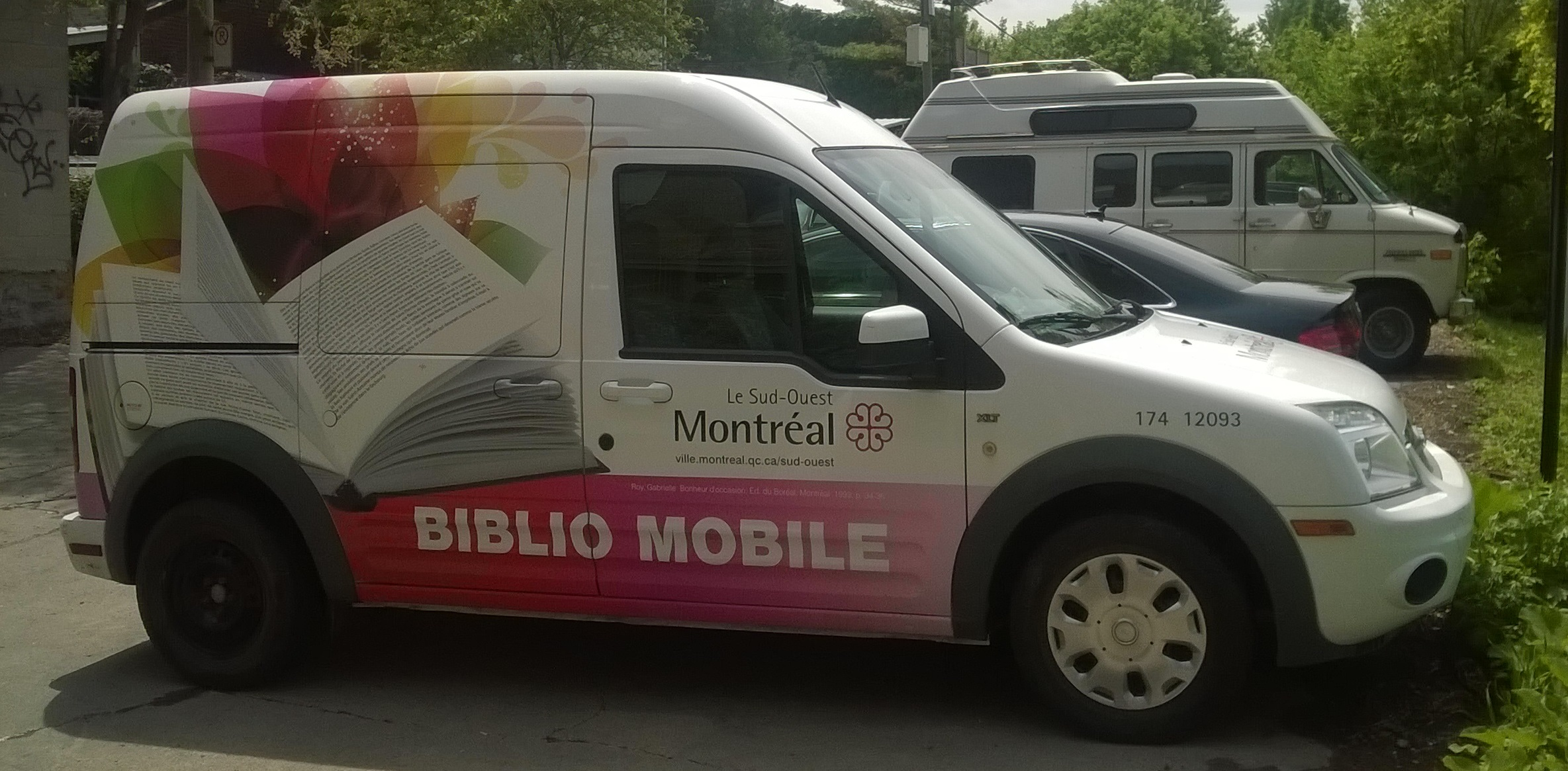 Ford Transit Connect photographed in Montréal, Québec, Canada with a logo of the city's Sud-Ouest borough.